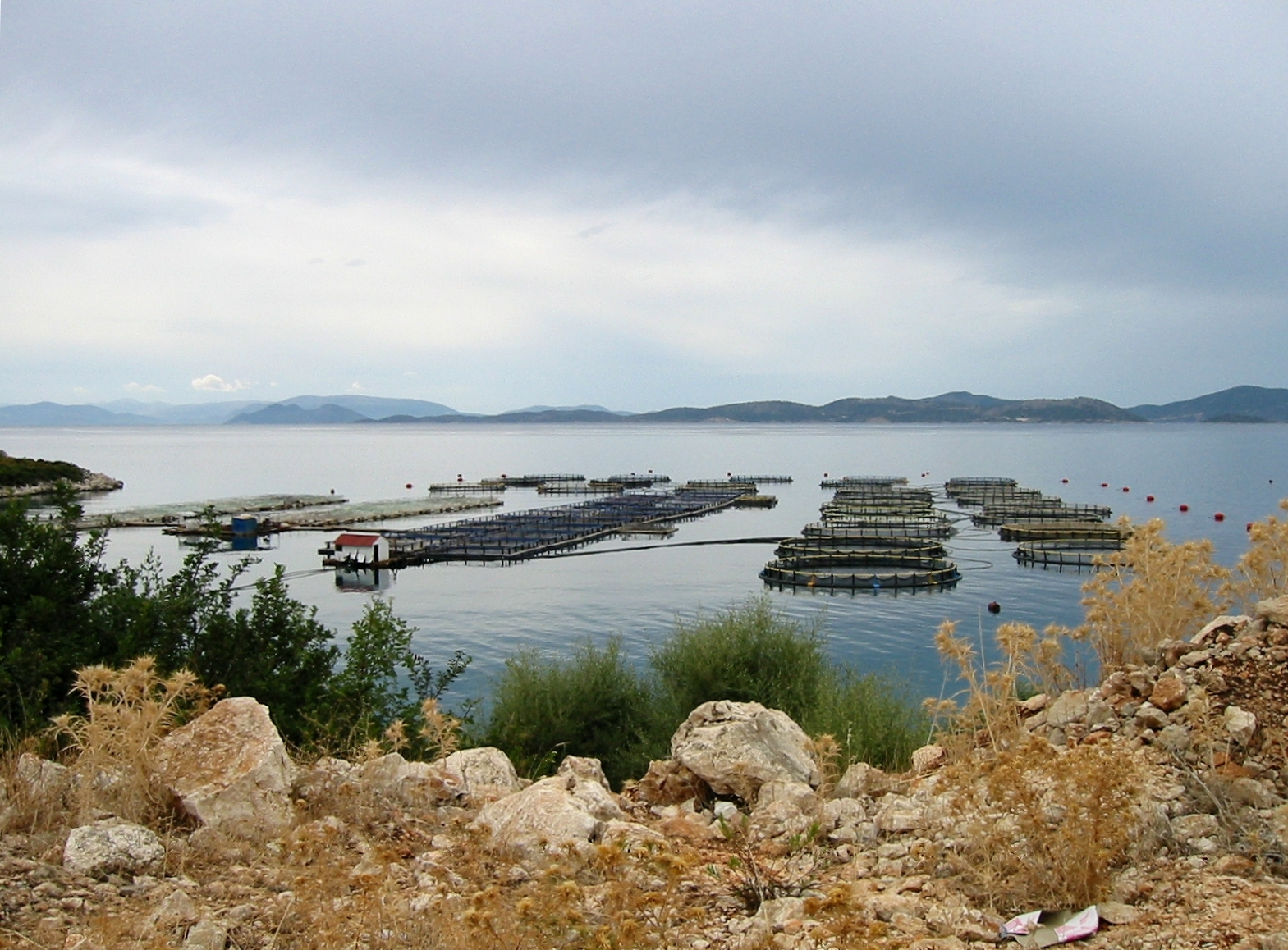 Aquaculture at a bay in western Greece